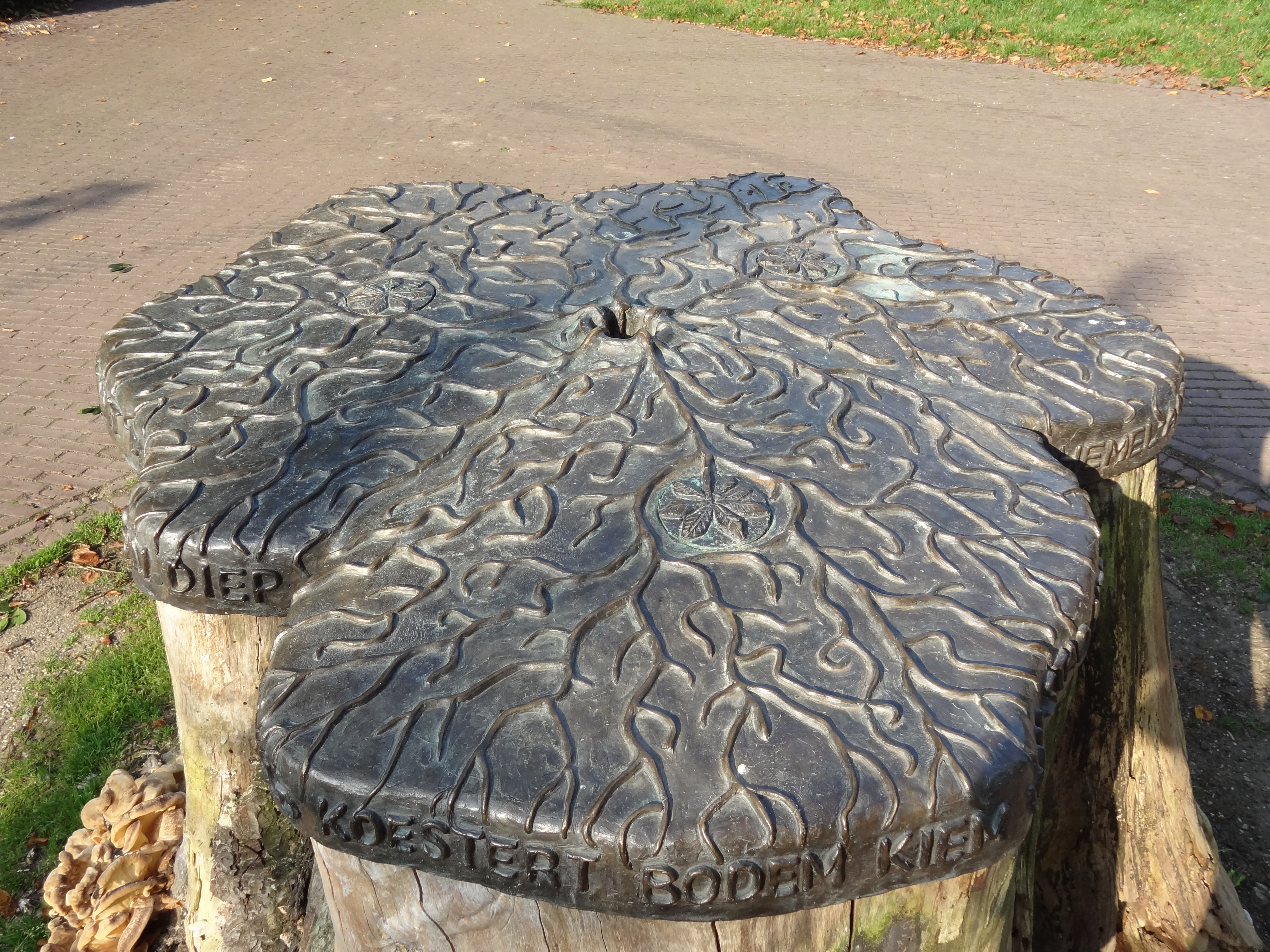 Relief "Kastanjedroom" (Chestnut's dream) created by Carel Lanters at the Valkhof in Nijmegen, The Netherlands